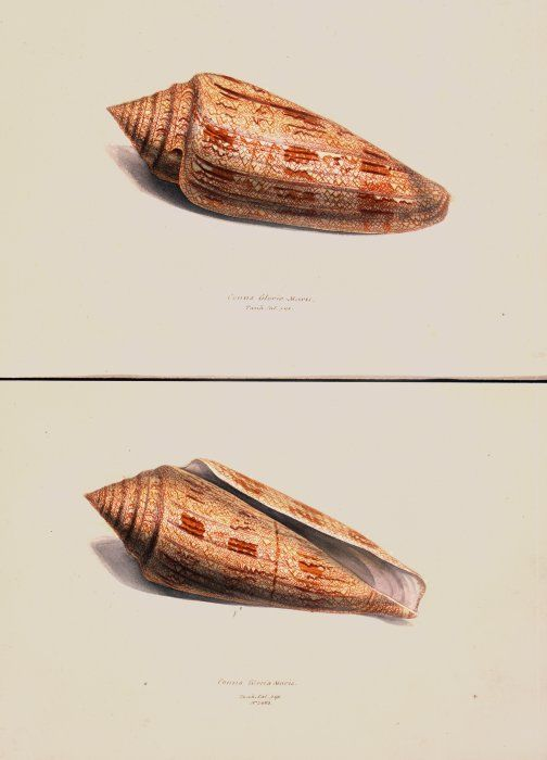 Shell drawing of Conus gloriamaris taken from Conchological drawings and watercolours, miscellaneous, ca 1804 to 1850 by William Swainson.